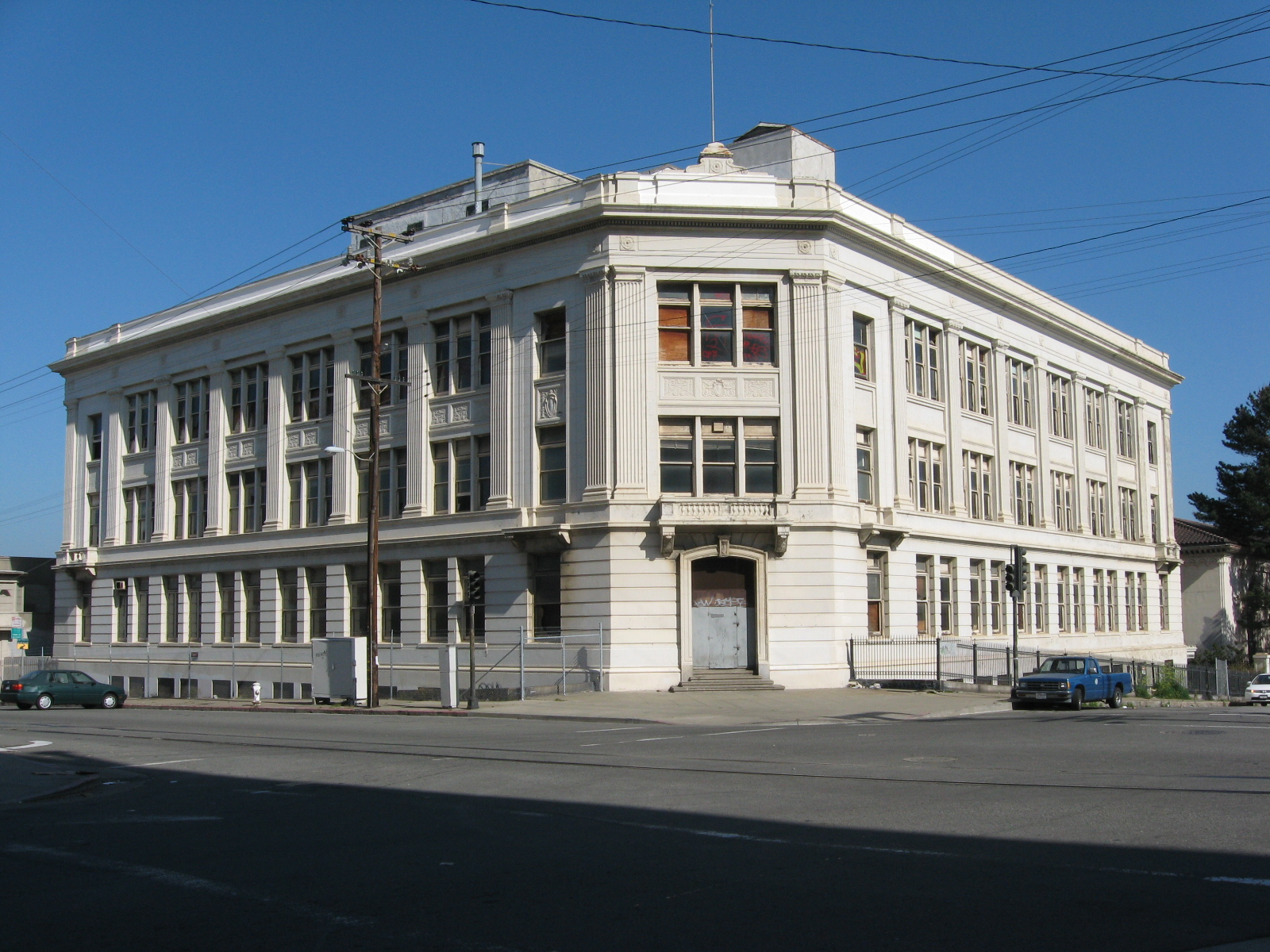 Old Bethlehem Shipbuilding Corporation Headquarters in San Francisco, 20th and Illinois Sts. This building is a contributing property to the Union Iron Works Historic District, listed on the National Register of Historic Places April 17, 2014.